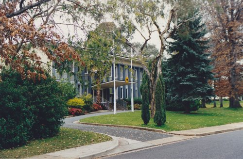 Deutsche Botschaft Canberra um 1980